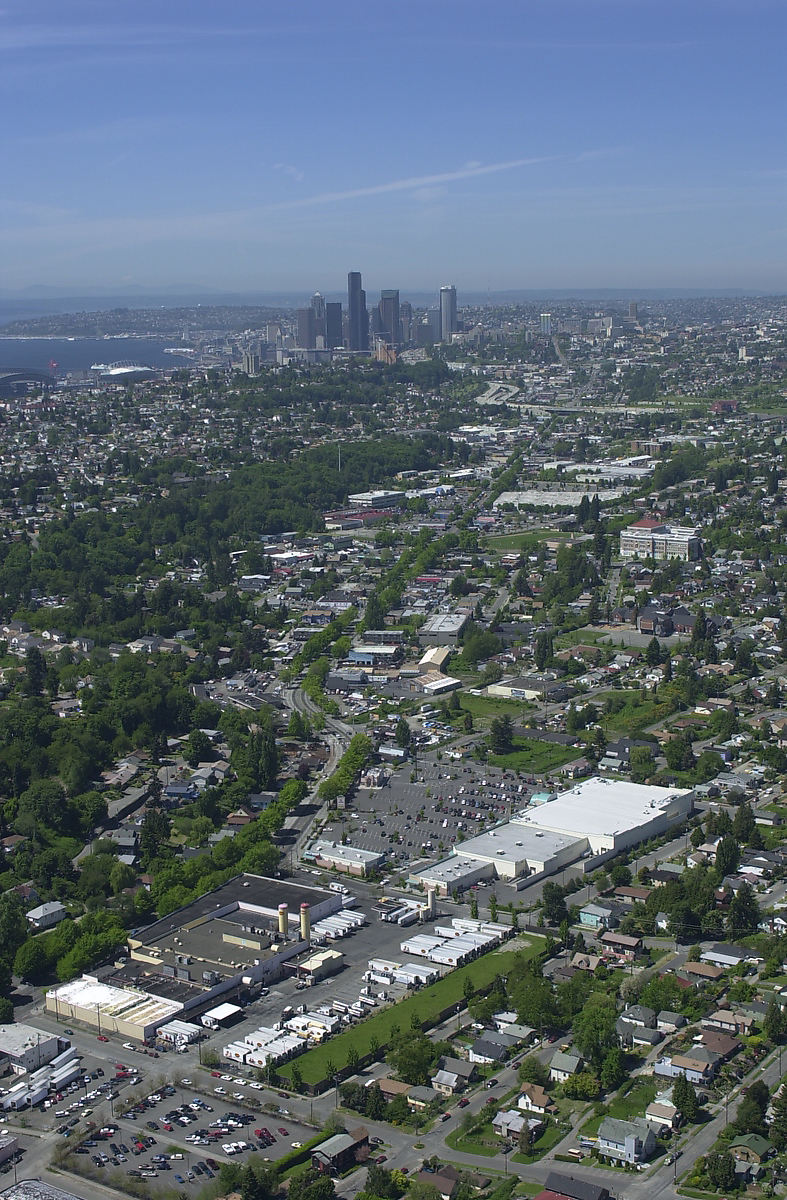 Aerial view of Rainier Avenue in the Rainier Valley neighborhood of Seattle, Washington, with the downtown skyline in the background. Item 114373, Fleets and Facilities Department Imagebank Collection (Record Series 0207-01), Seattle Municipal Archives.